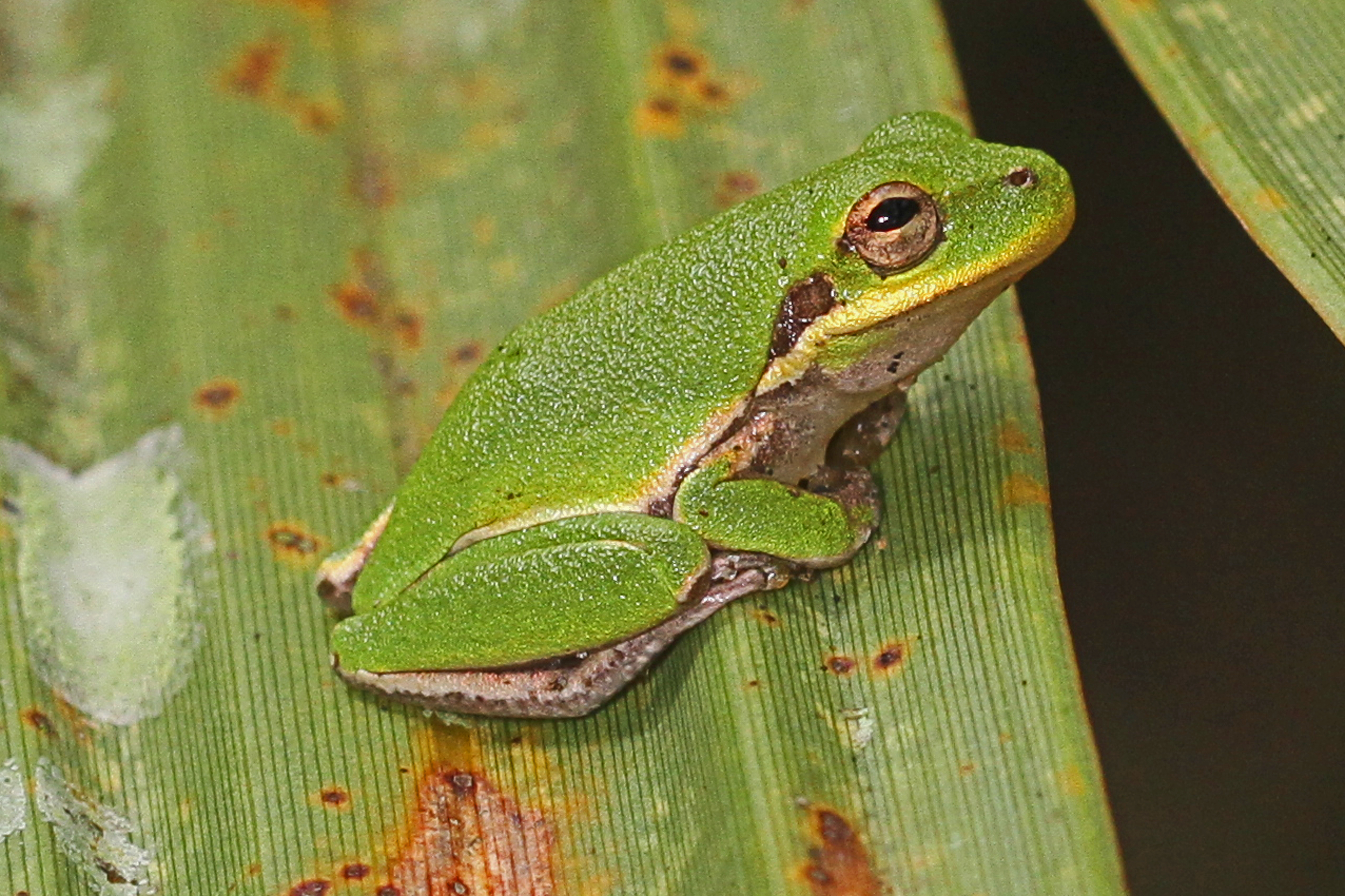 Squirrel Tree Frog - Hyla squirella, Okaloacoochee Slough Wildlife Management Area, Immokalee, Florida